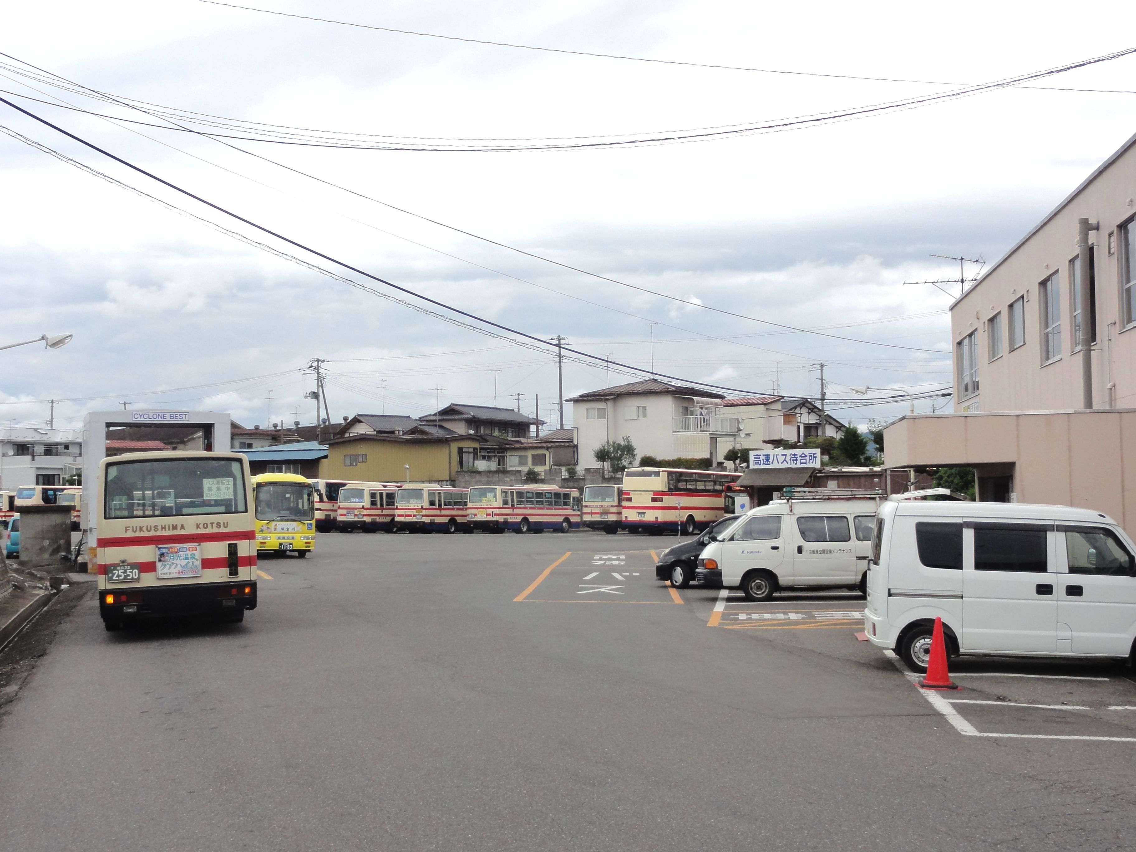 Fukushima Transportation Sukagawa Depot